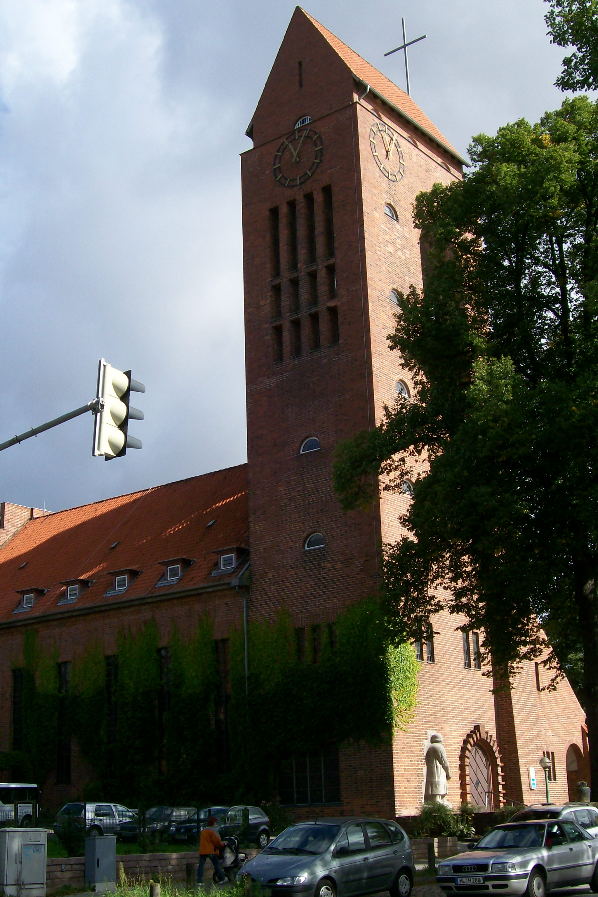 Lutherkirche (Lübeck) in Lübeck which commemorates the three roman-catholic Lübecker Märtyrer/Lübeck martyrs Johannes Prassek, Eduard Müller, Hermann Lange and their lutheran companion Karl Friedrich Stellbrink.